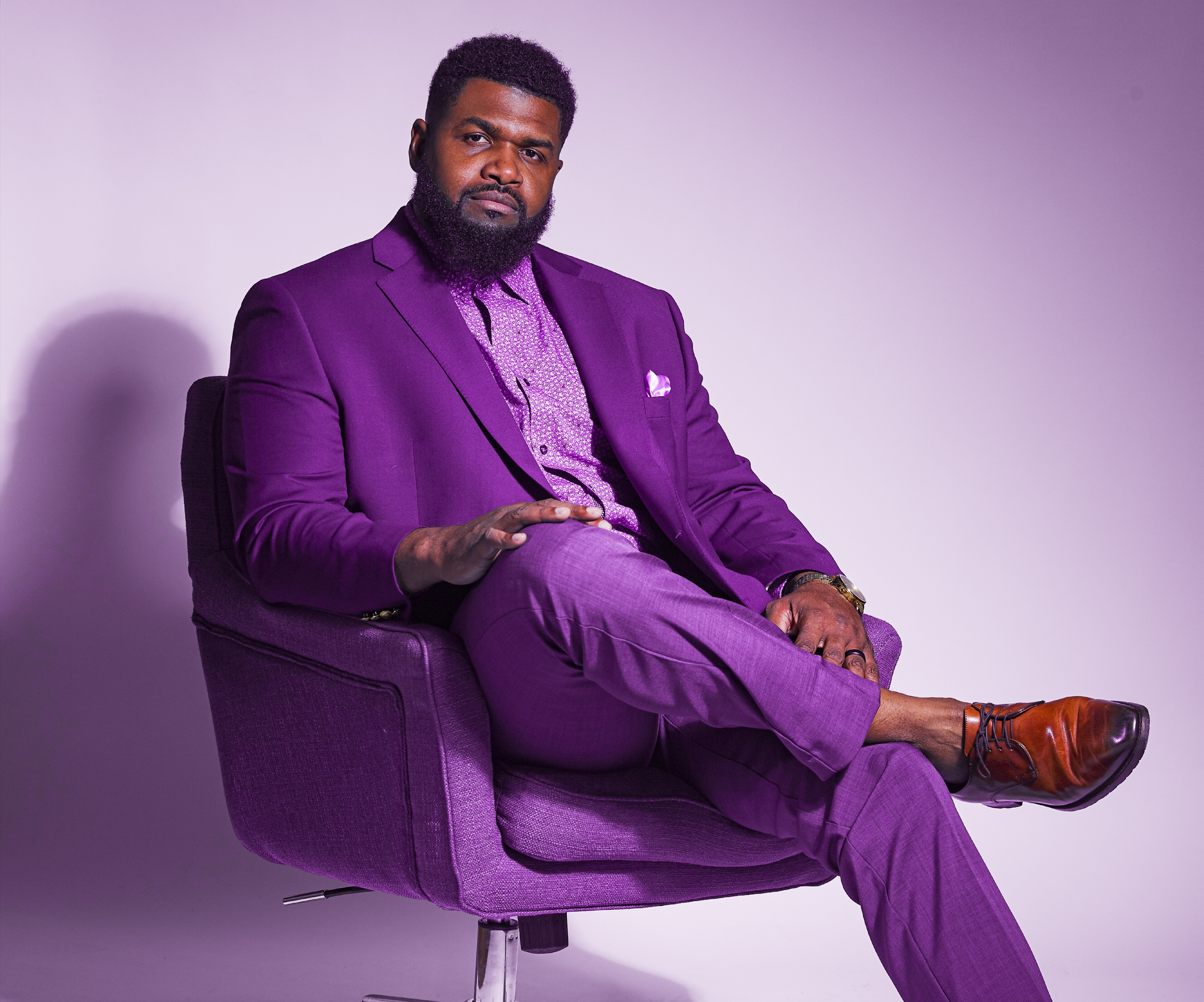 A self-portrait of former-NFL player Corey Jackson, taken with a timer.